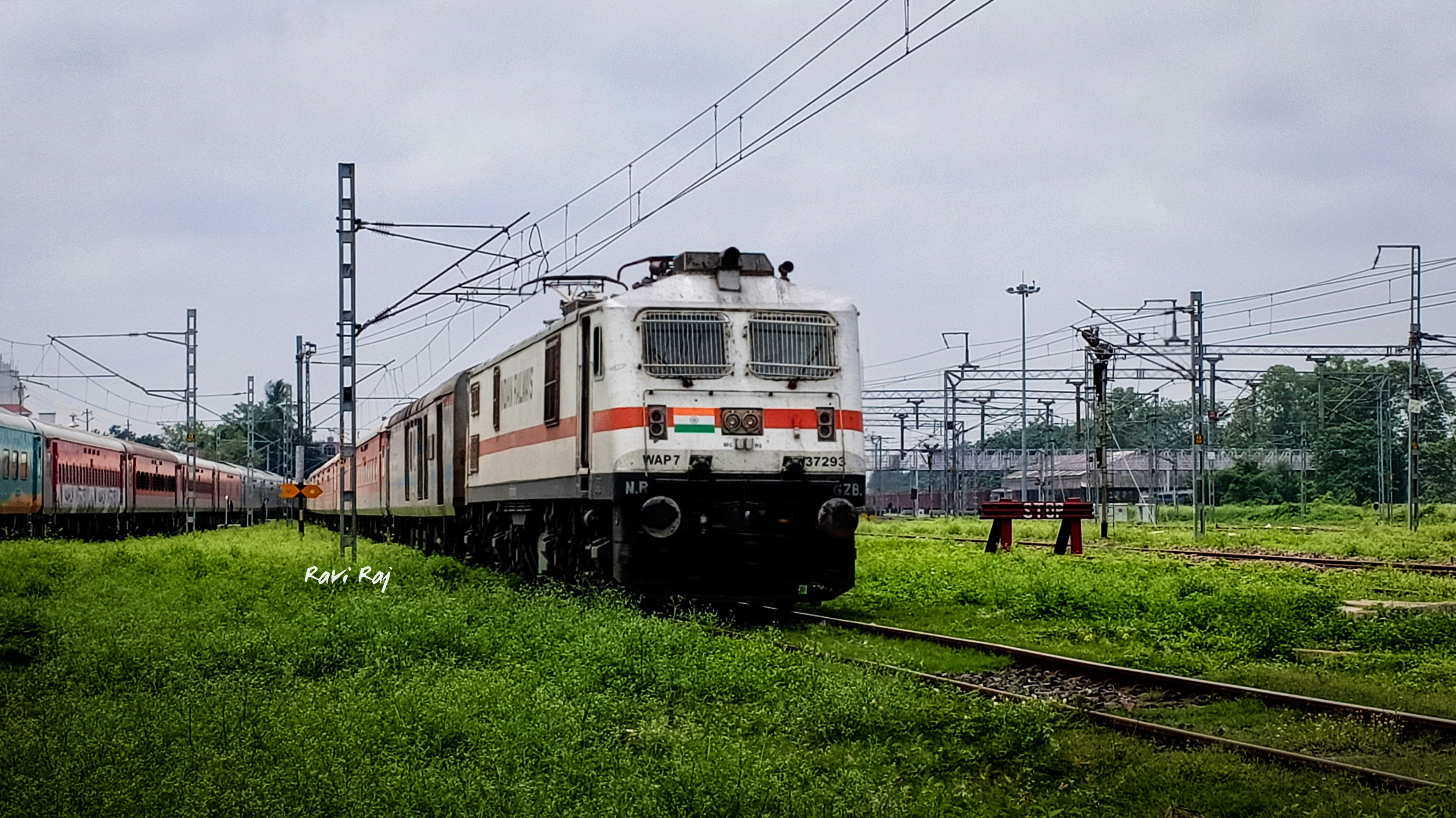 02424 Dibrugarh Rajdhani COVID-19 Special approaching Katihar